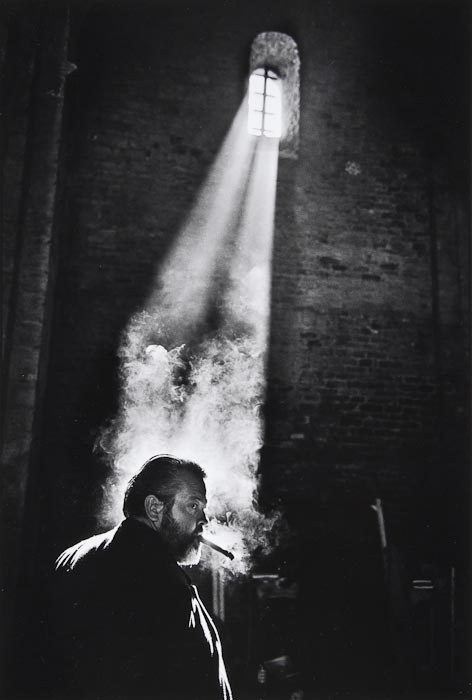 Photograph of Orson Welles taken by Nicolas Tikhomiroff while recording in Spain "Chimes at midnight". Reproduction, (C) Bloomsbury Auctions